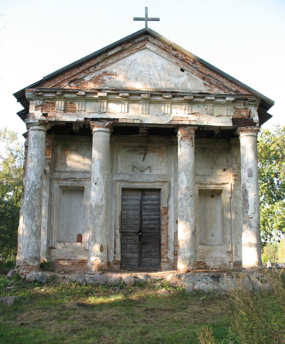 St Kazimierz Chapel, Ruzhany Graveyard, Belarus.